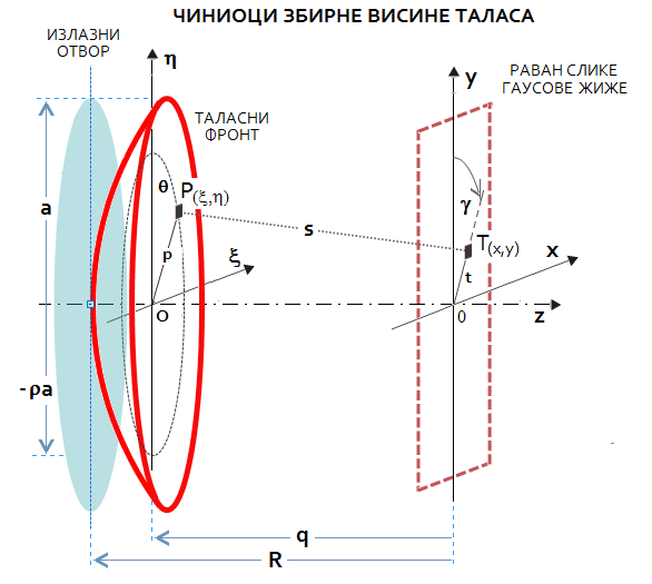 ЗБИРНА ВИСИНА ПОЉА